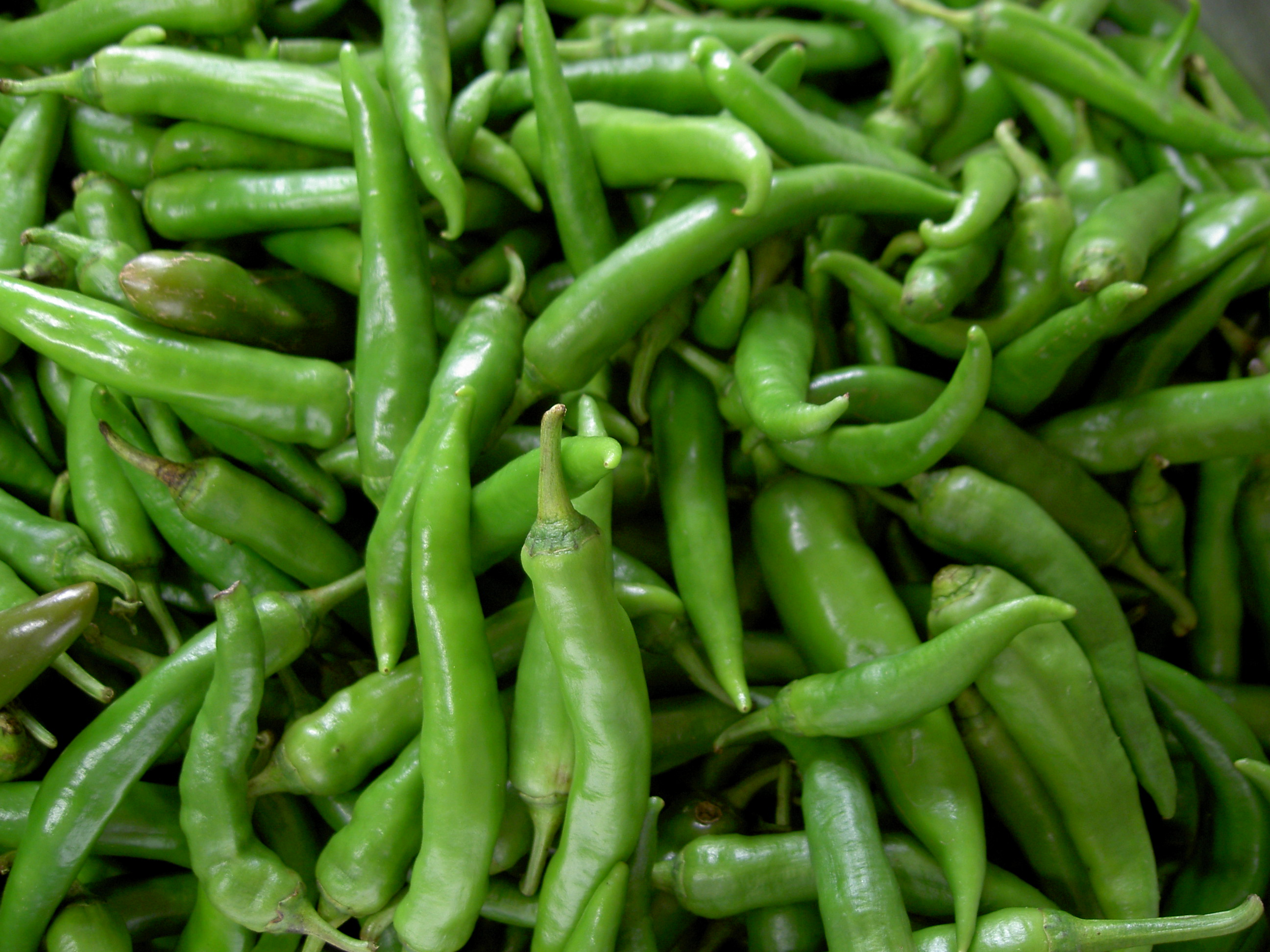 Chili Pepper in Korea